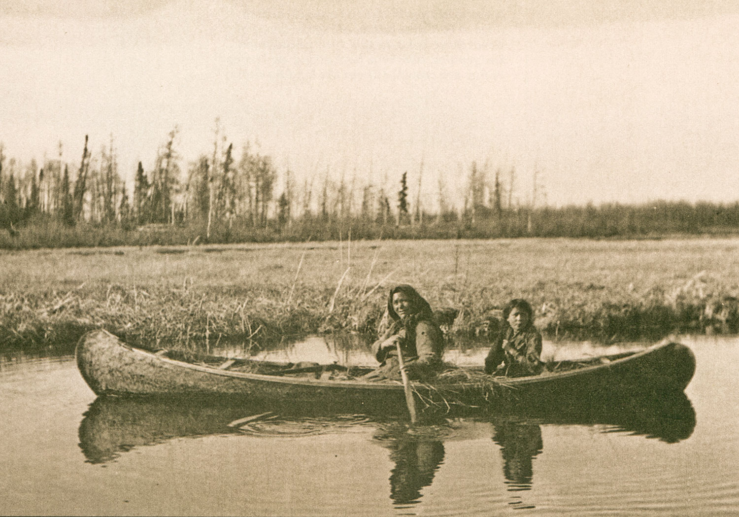 A Chipewyan woman and child set out to hunt muskrat along the shallow margins of Garson Lake in western Saskatchewan.